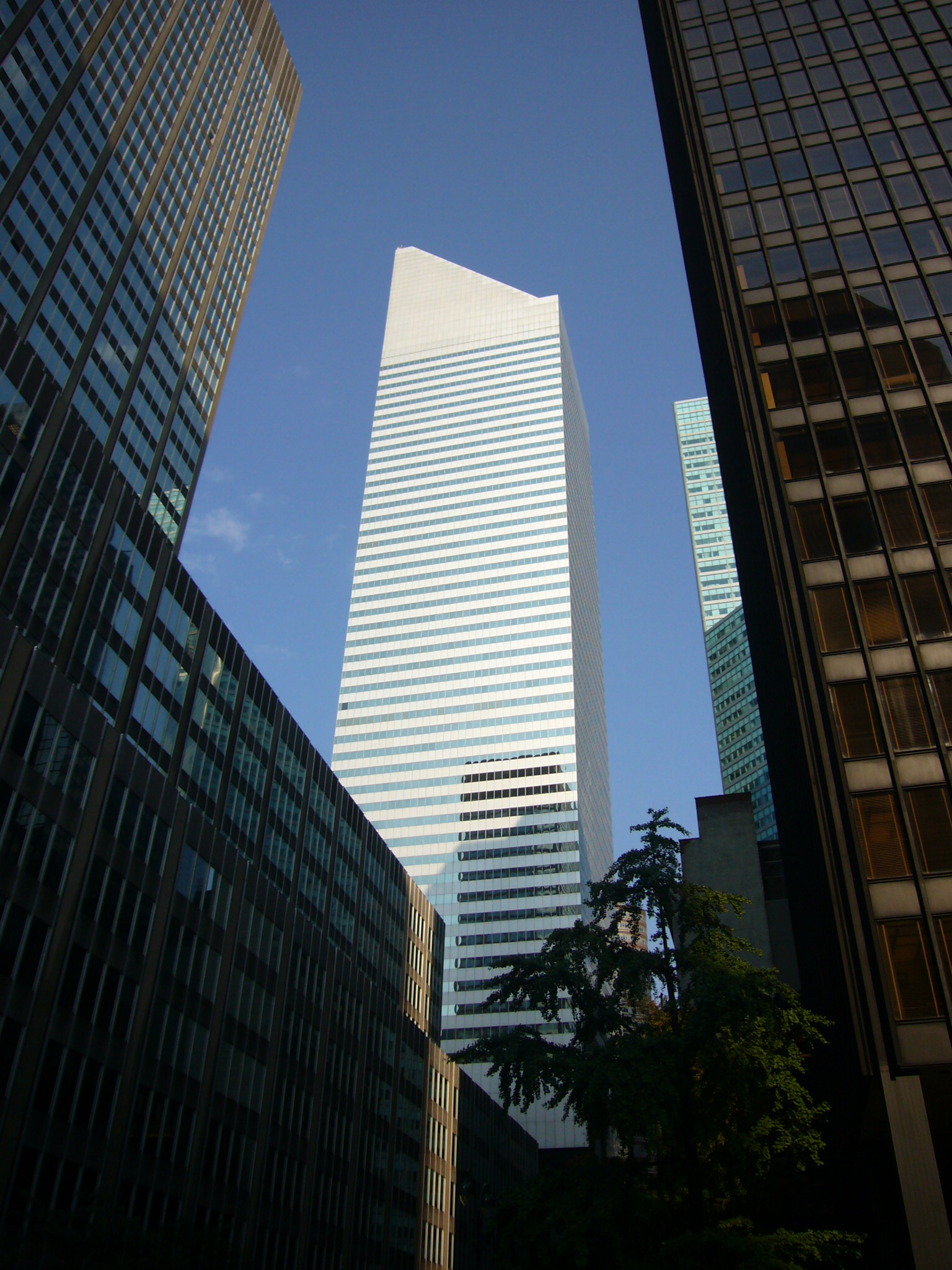 Looking east from Park Avenue along 53rd Street.